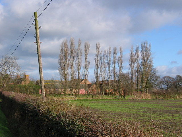 Brind, East Riding of Yorkshire, England.Looking east along the north edge of the grid square.